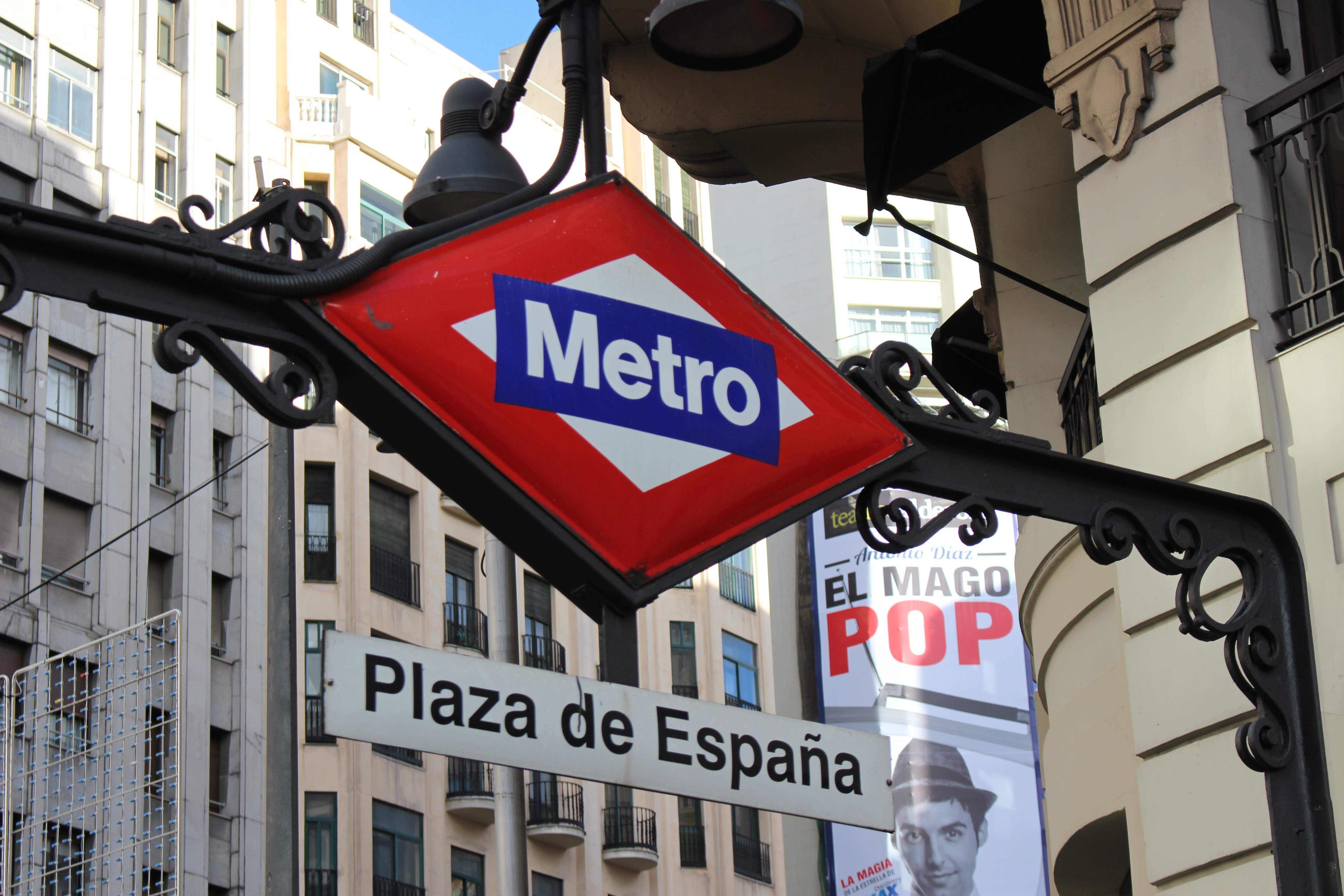 Entrance to the Plaza de Espana metro stop in Madrid, Spain